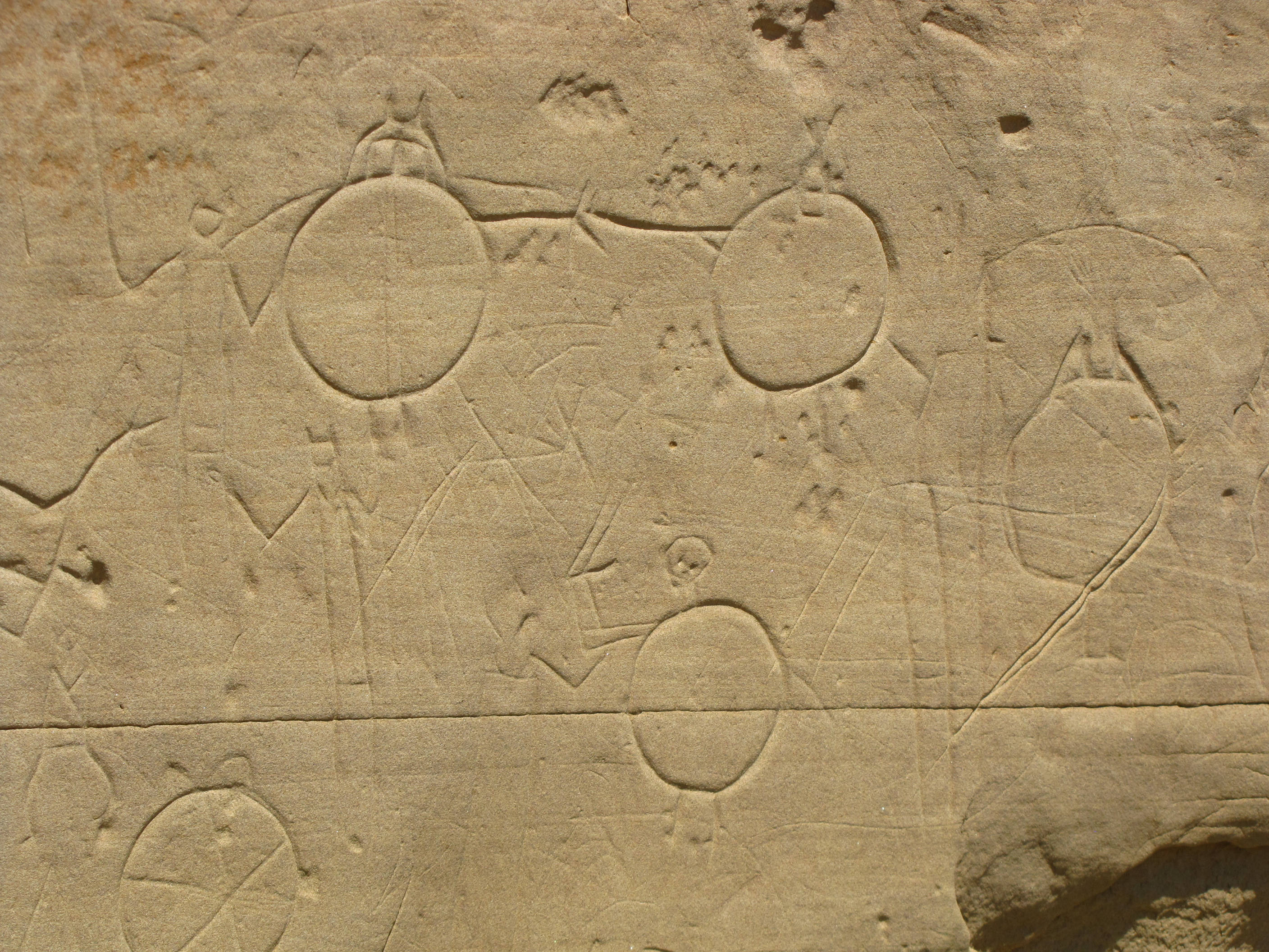 Not pictures of very fat men, but pictures of men with shields. The presence of large round shields helps to date this carving as the shields were discarded after the First Nations acquired horses which, for the Blackfoot, was in the 1730s. Ergo, this petroglyph most likely predates 1730.